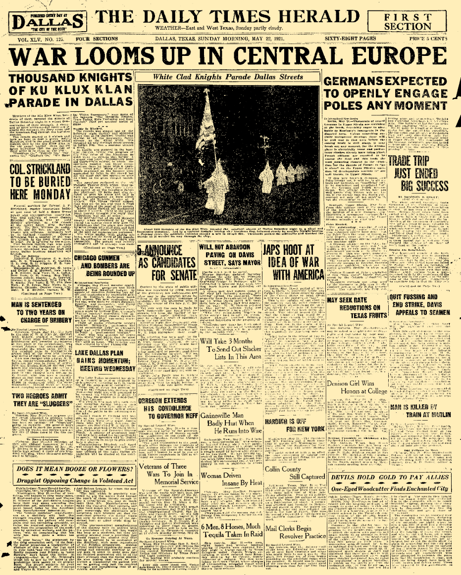 Front page of The Dallas Times Herald on May 22, 1921. The newspaper was later known as Dallas Times Herald before it became defunct in 1991.